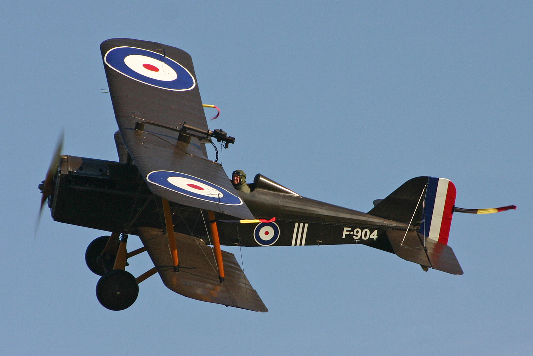 c/n 654 / 2404. Displaying at Old Warden. 02-10-2011